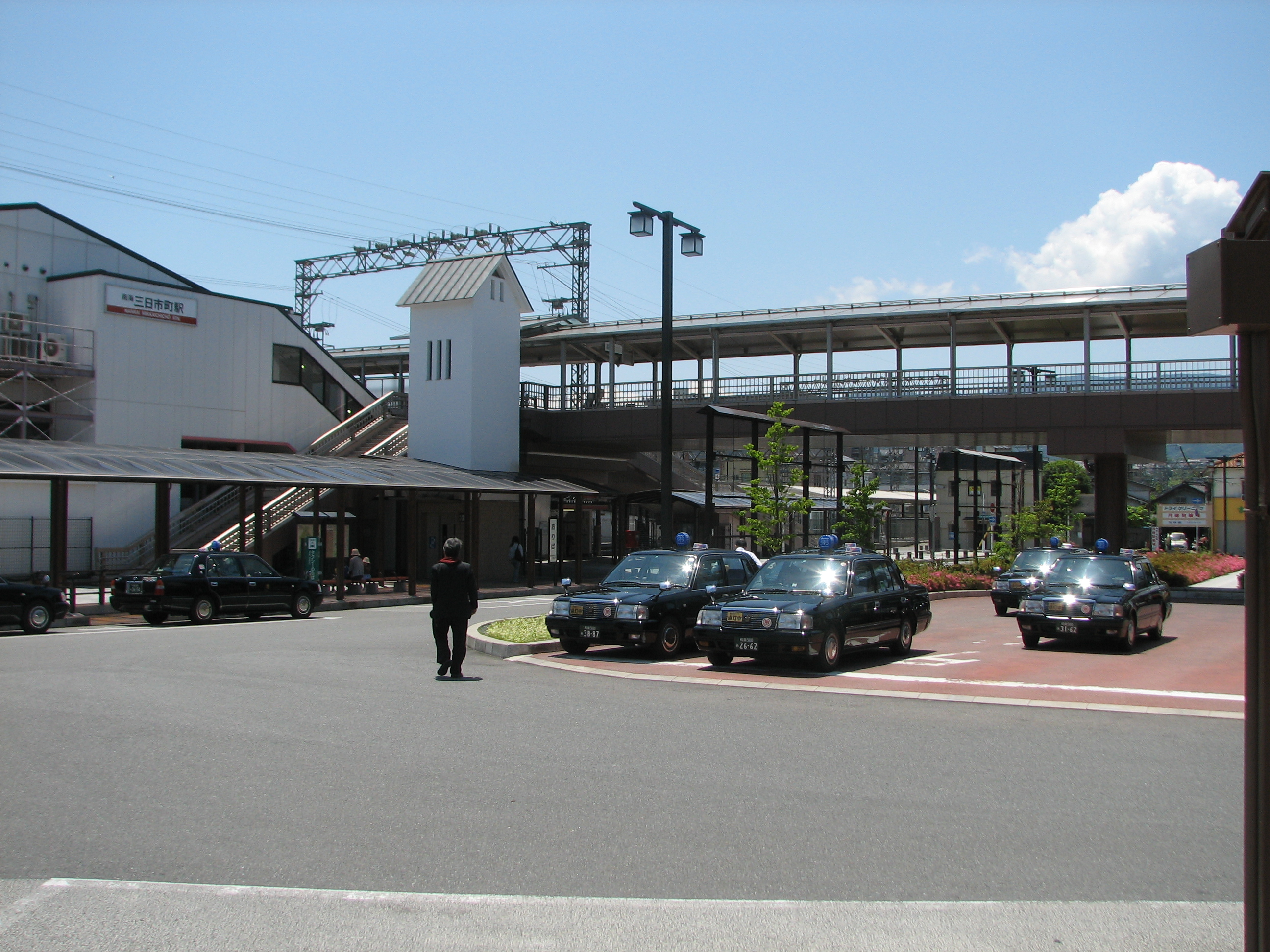 Mikkaichichō Station of Nankai Kōya Line